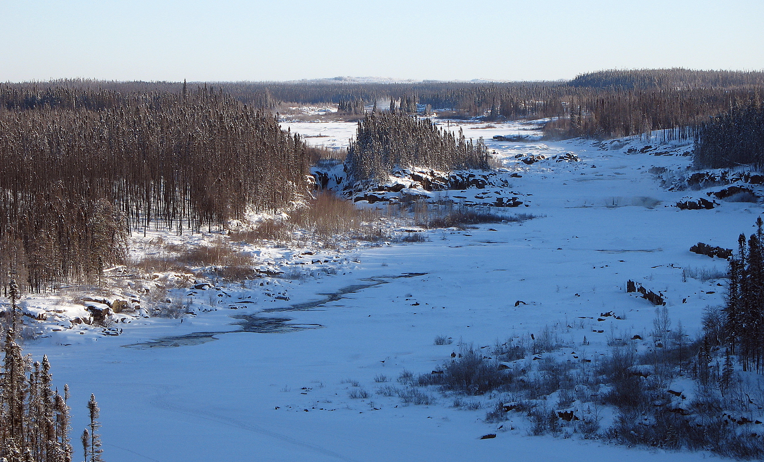 Eastmain River at the James Bay Road, northern Quebec, Canada